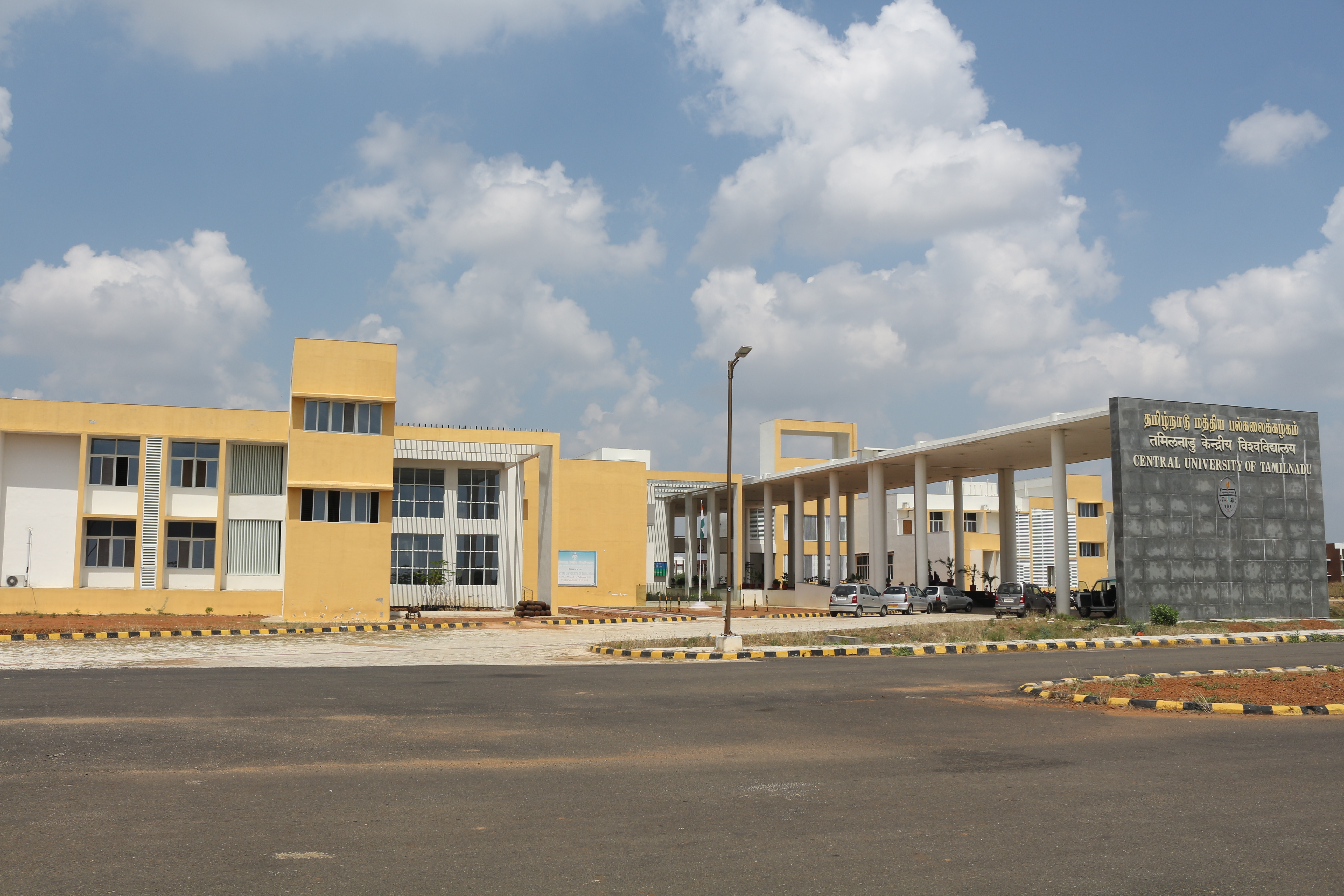 BUILDINGS IN CUTN